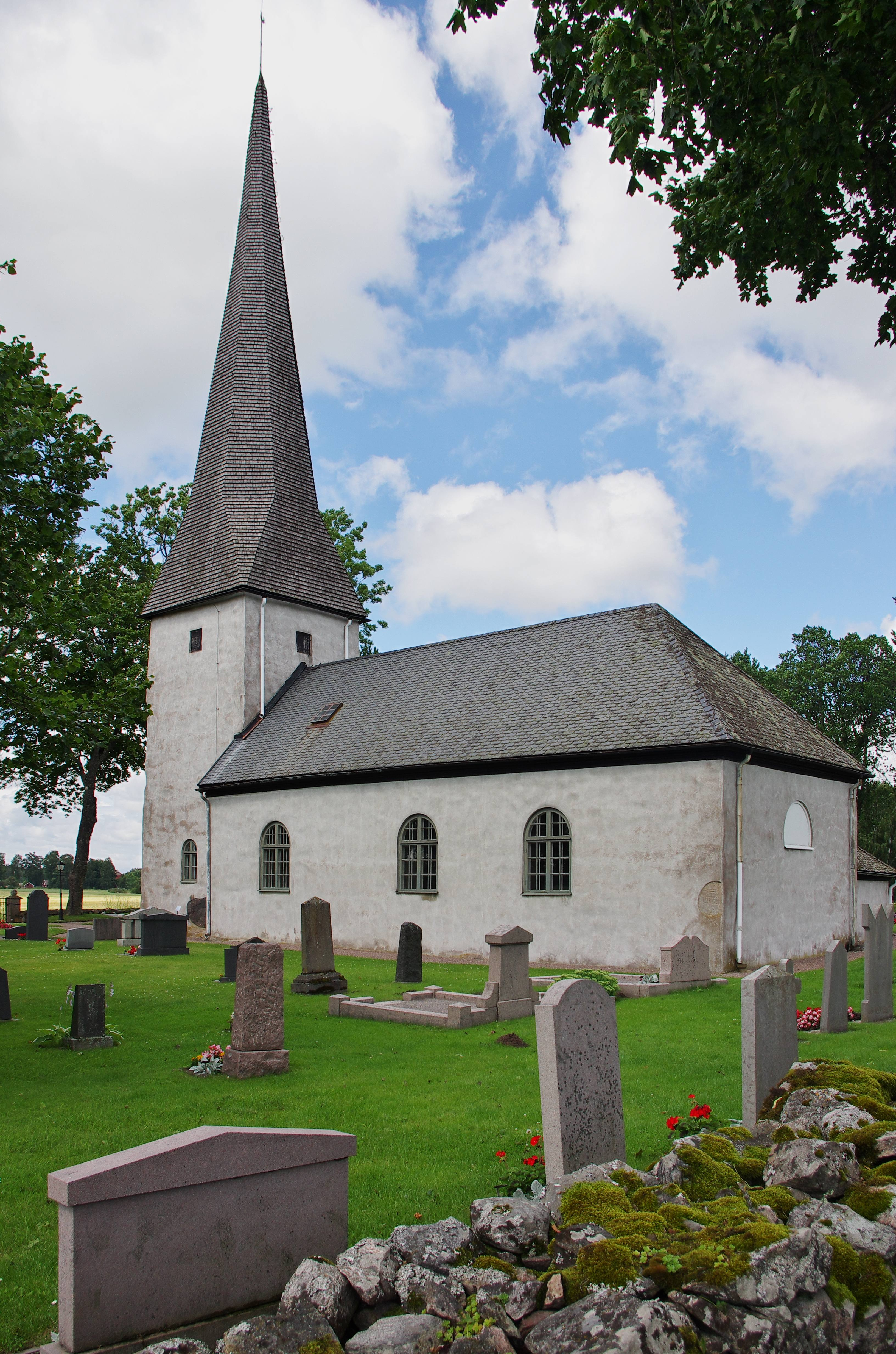 Västra Gerums kyrka (english:Västra Gerum church) in Västergötland and Skara municipality in Västragötaland county, Sweden.